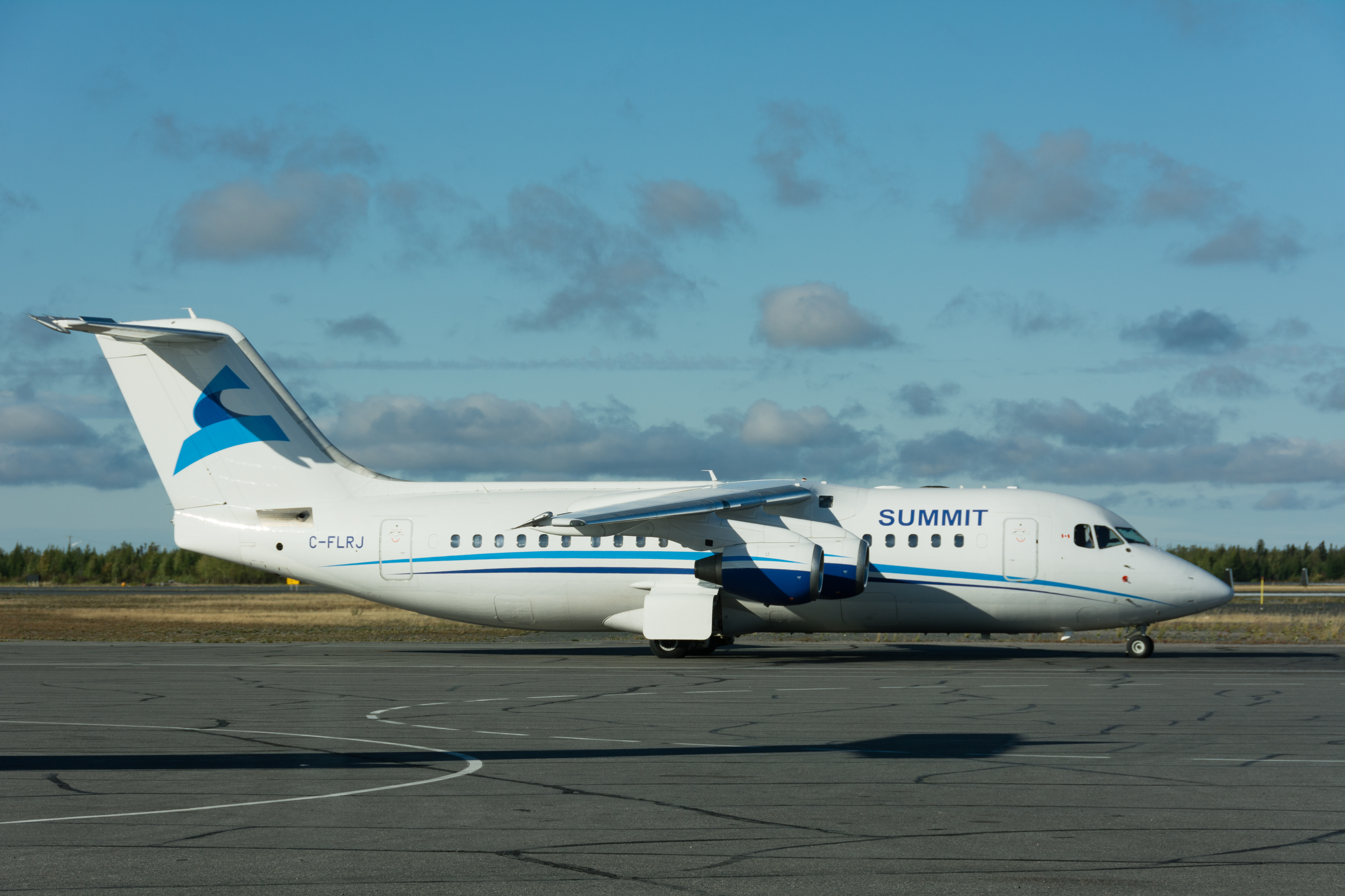 Summit Air BAe 146 Avro RJ85 C-FLRJ at Yellowknife Airport YZF, NWT Canada on September 6, 2015.